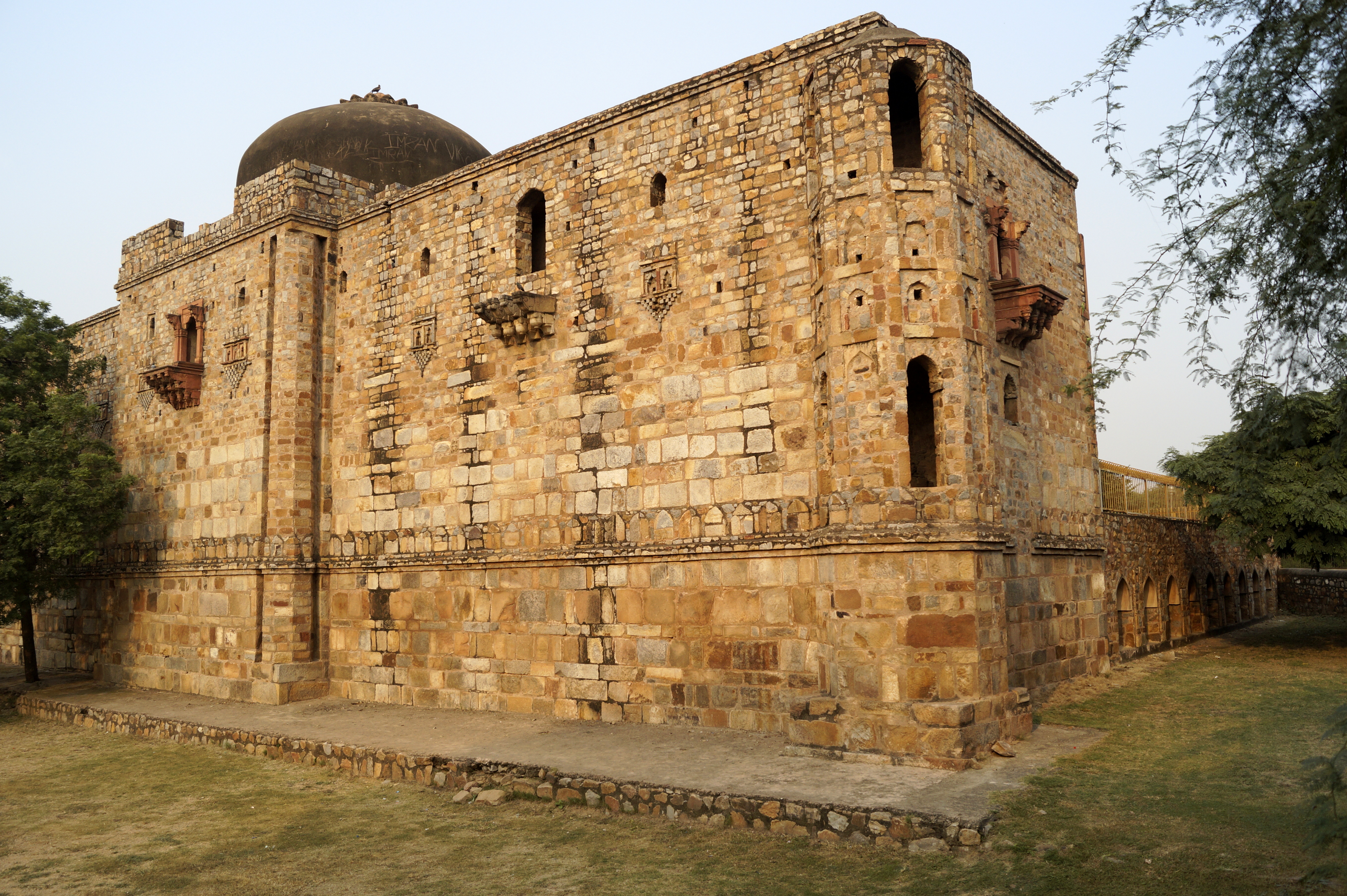 Jamali Kamali Mosque , New Delhi, India